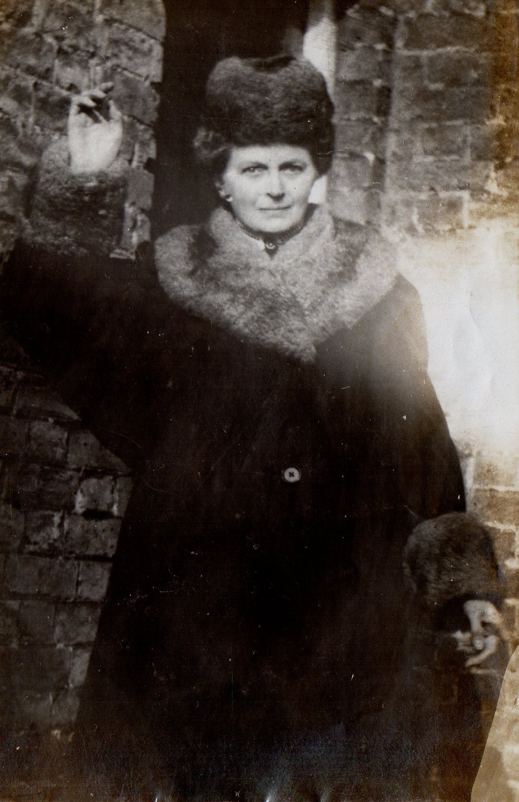 Alice Abadam (2 January 1856 – 1940) was a Welsh suffragette and public speaker. Guess 1884